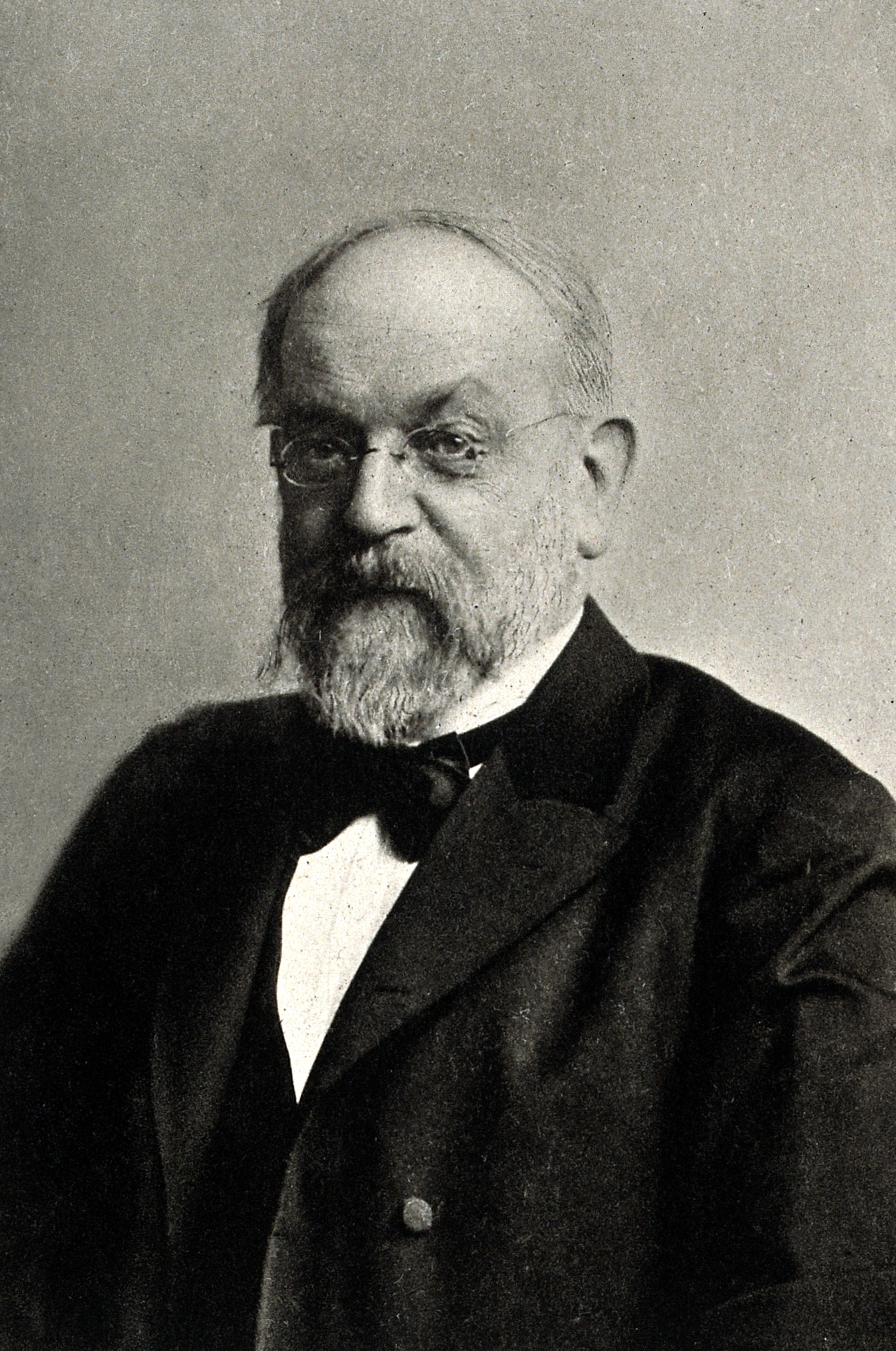 Heinrich Laehr. Photogravure. Iconographic Collections Keywords: portrait prints